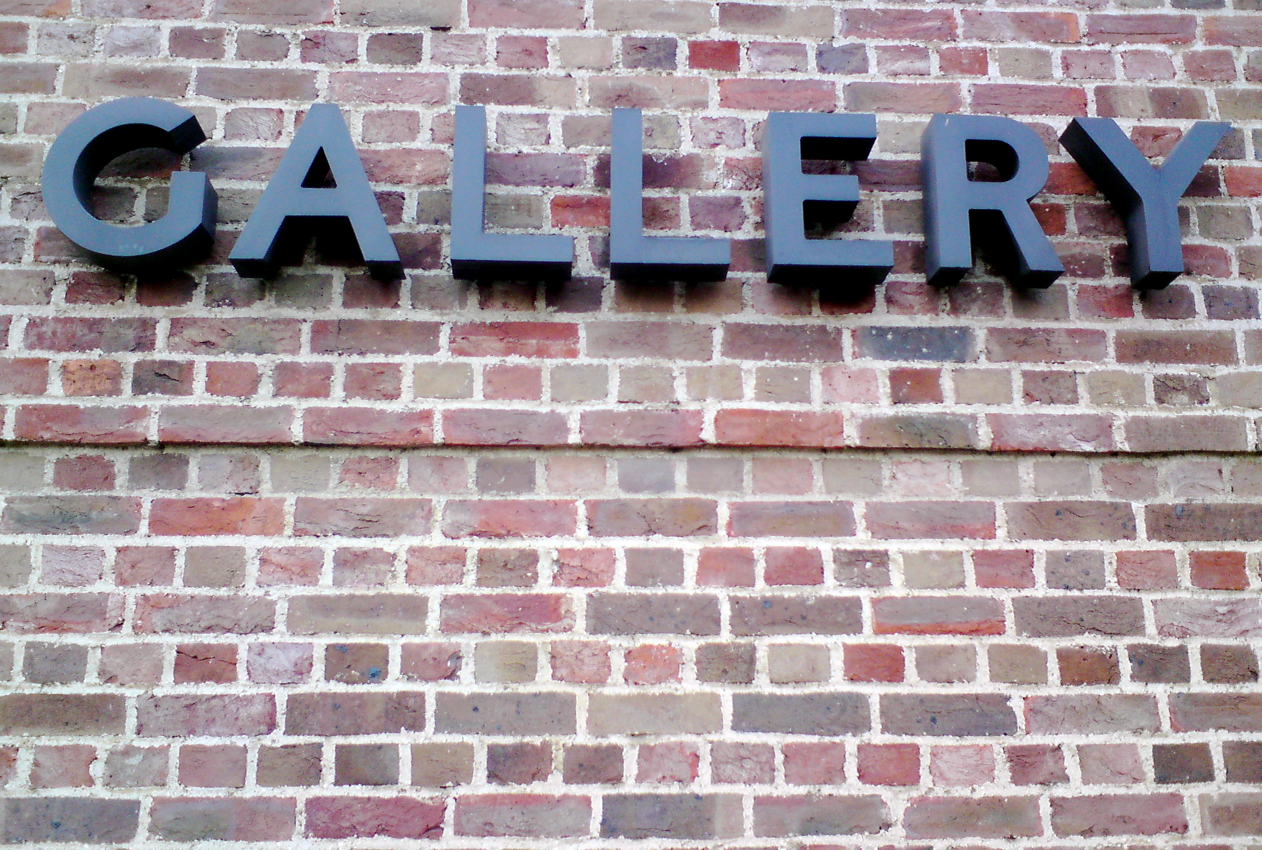 Dulwich Picture Gallery London 2008